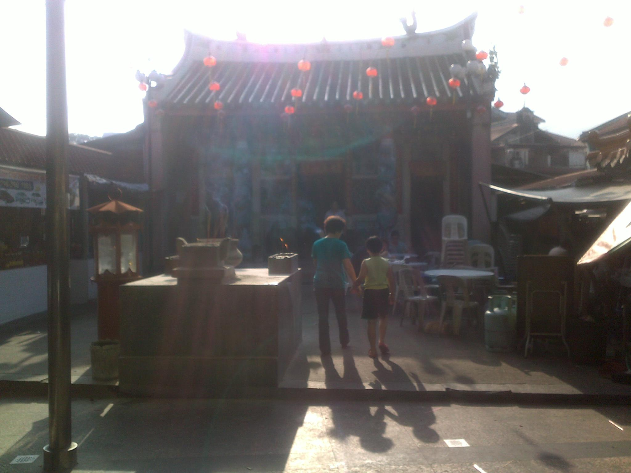 Front courtyard of the Pek Kong Temple along Jalan Pasar, Bukit Mertajam, Penang, Malaysia on Sunday morning.